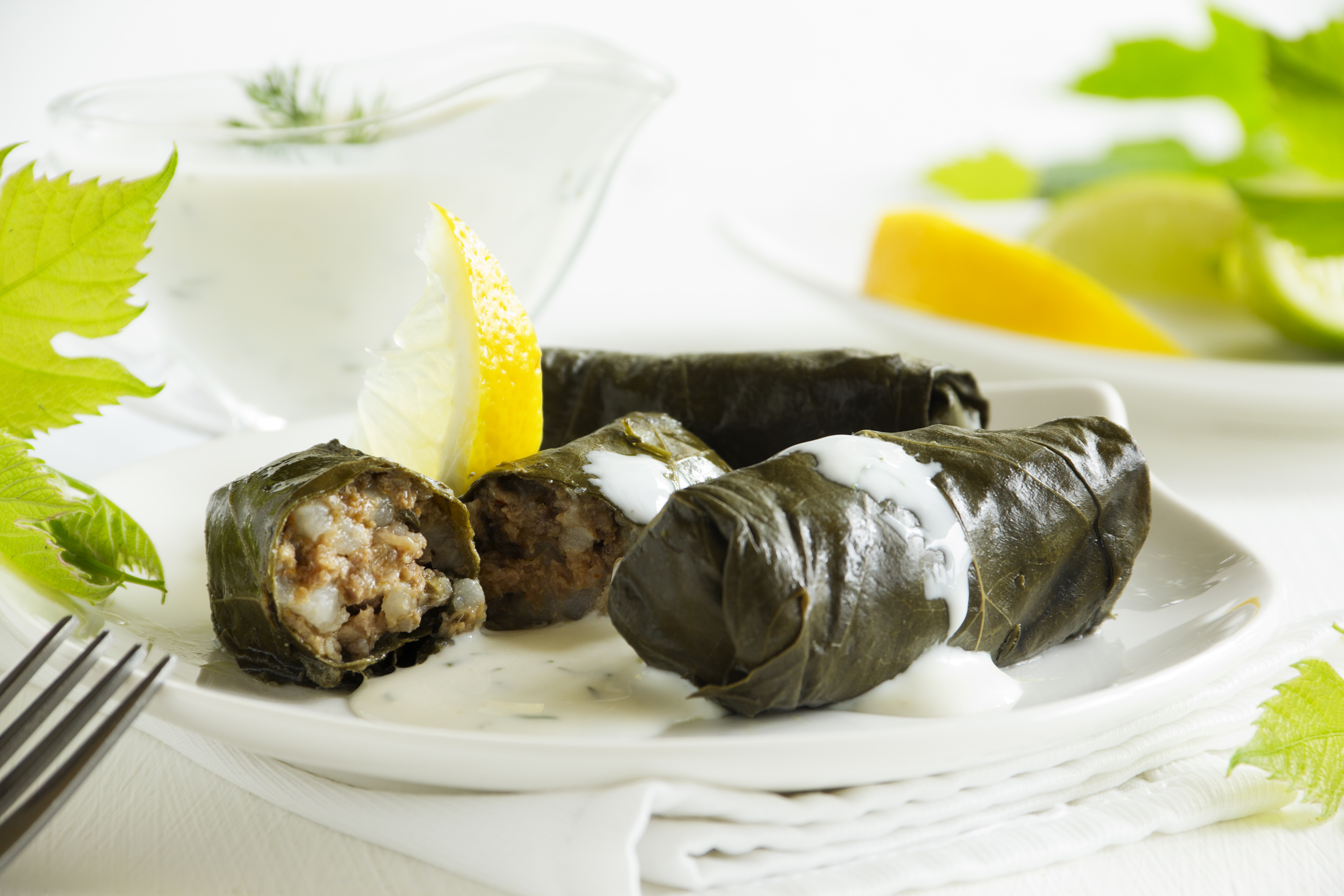 dolma, stuffed grape leaves, turkish and greek cuisine